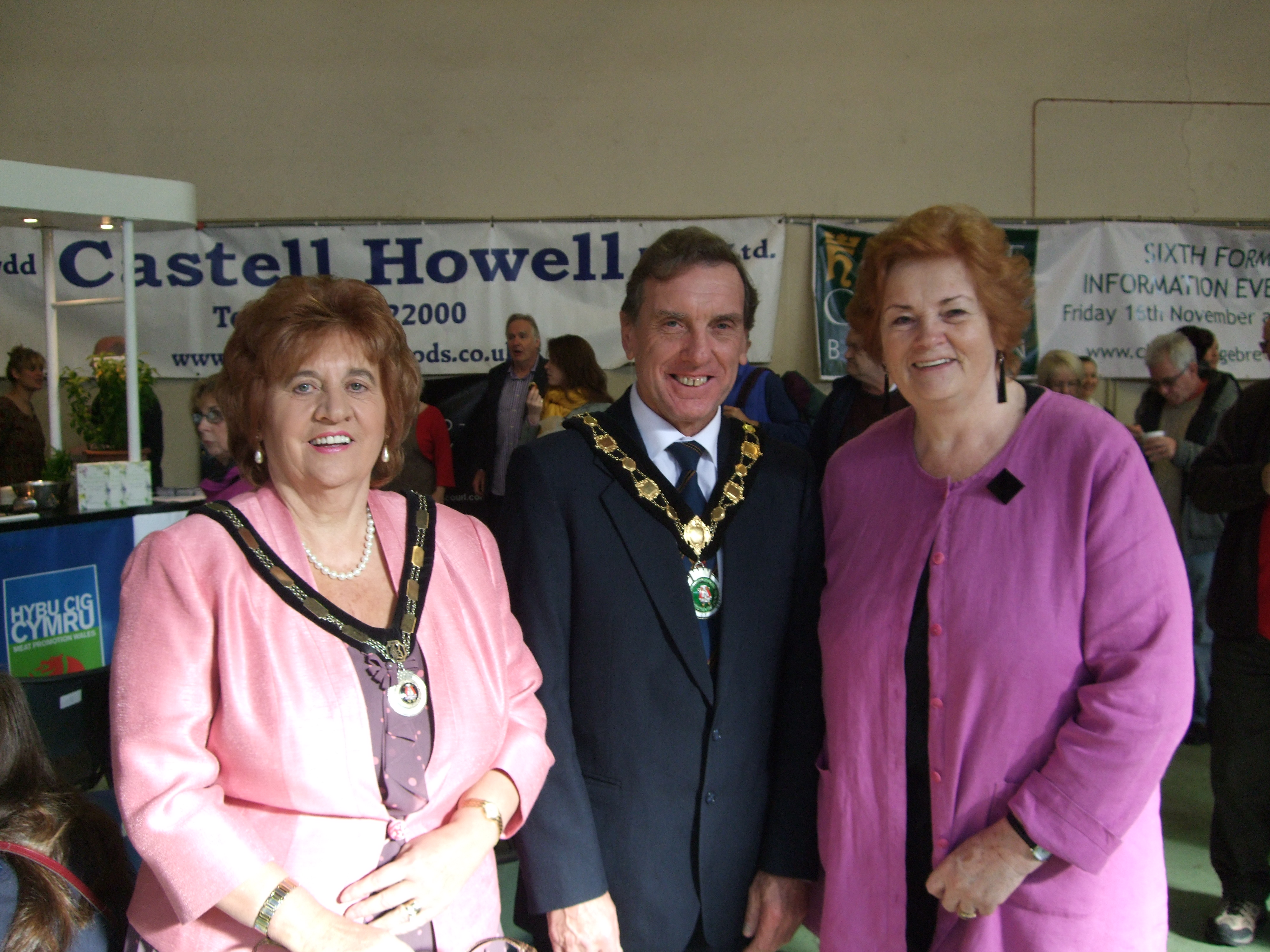 Llywydd gyda Maer a Faeres Aberhonddu, Paul a Val Ashton / Presiding Officer with the Mayor and Mayoress of Brecon, Paul and Val Ashton